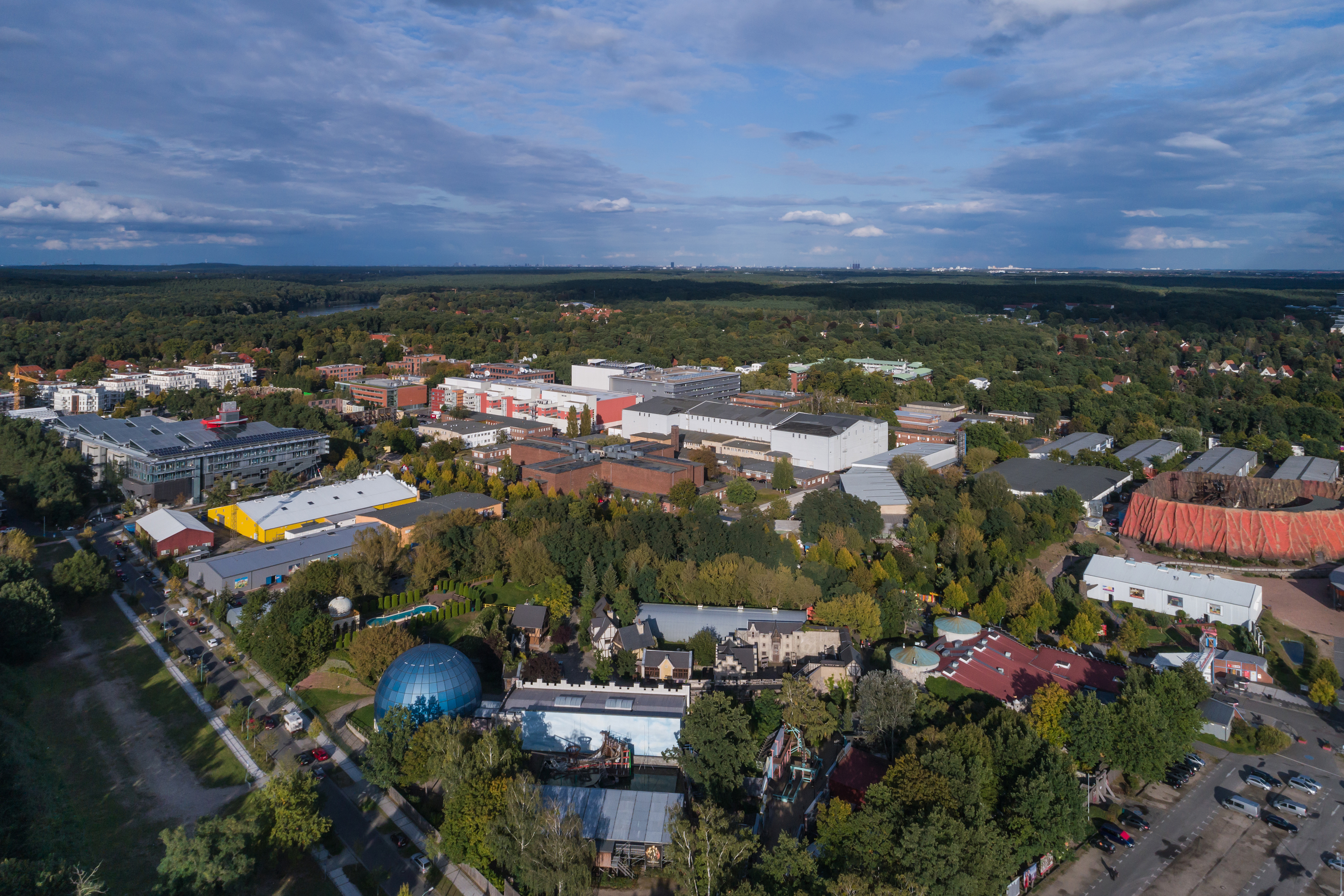 Babelsberg Movie Park in Potsdam (Germany)